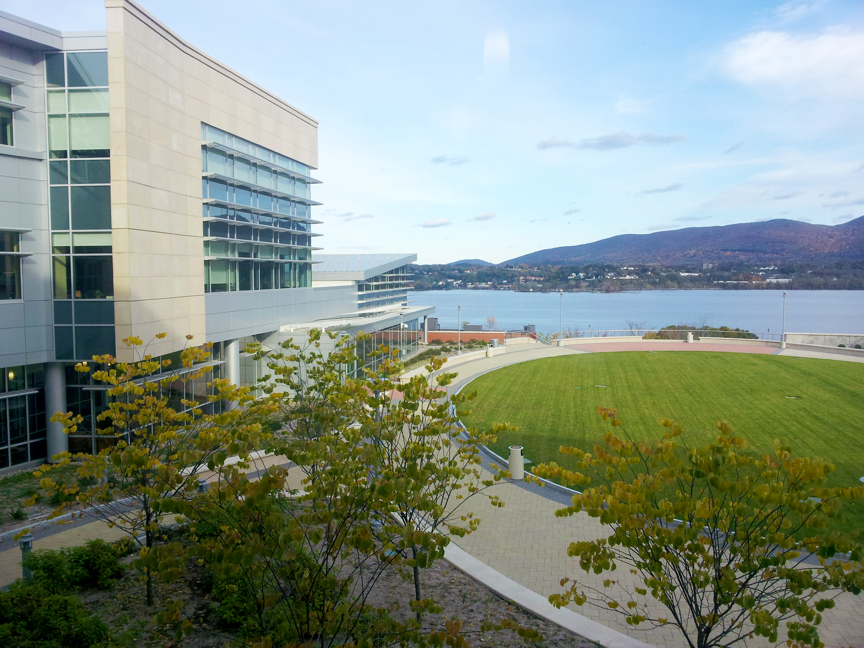 Looking out over the Hudson River from Kaplan Hall, on the SUNY Orange Newburgh Campus.